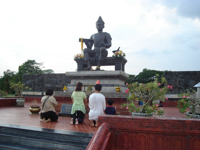 อุทยานประวัติศาสตร์สุโขทัย Statue of Ramkhamhaeng the Great, King of Sukhothai Kingdom. Statue located in "Sukhothai Historical Park" in Sukhothai province..Sukhothai historical park.Sukhothai ,Thailand.2006